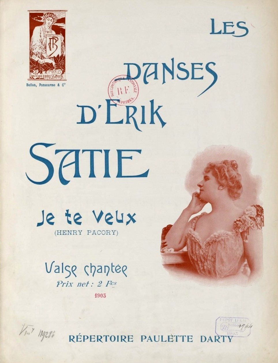 Cropped, adjusted version of PD image from the Bibliothèque nationale de France (BNF)